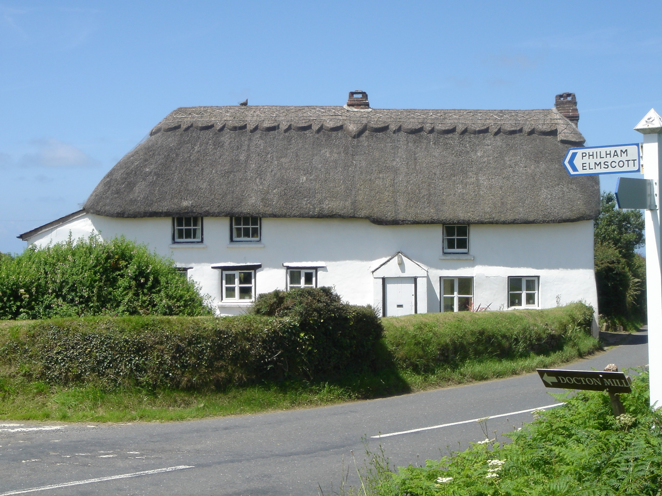 Thatched house in Devon 2007